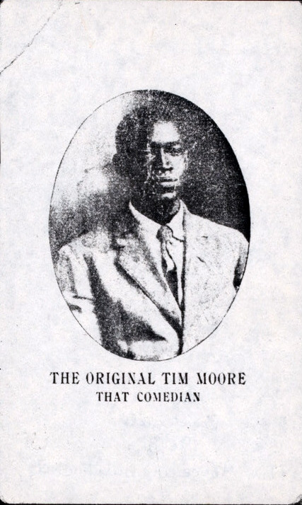 Tim Moore promotional photo. Copyright details The photo dates from before 1930 and can be dated as shown above by using Moore's birth year information. Moore began working on Broadway in 1925; he would have been 38 years old at the time. Prior to that, he spent many years touring on various entertainment circuits. He died at the age of 71 in 1958; all well before the 1978 guidelines.